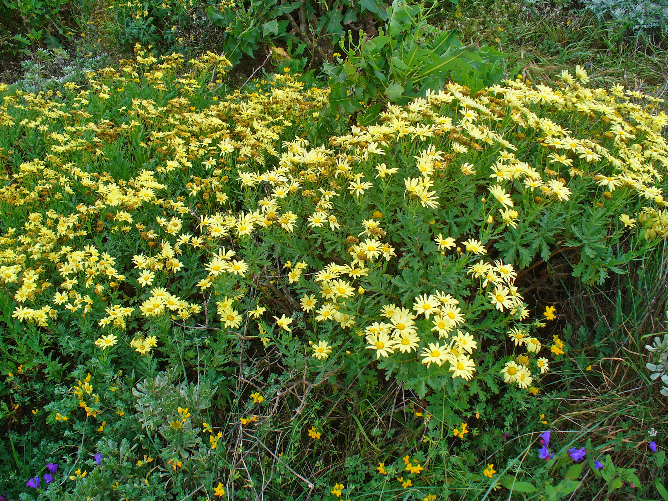 Madeira marguerite; Habitus at natural stand; South of the Mirador de Haria, Lanzarote, Canary Islands, Spain.